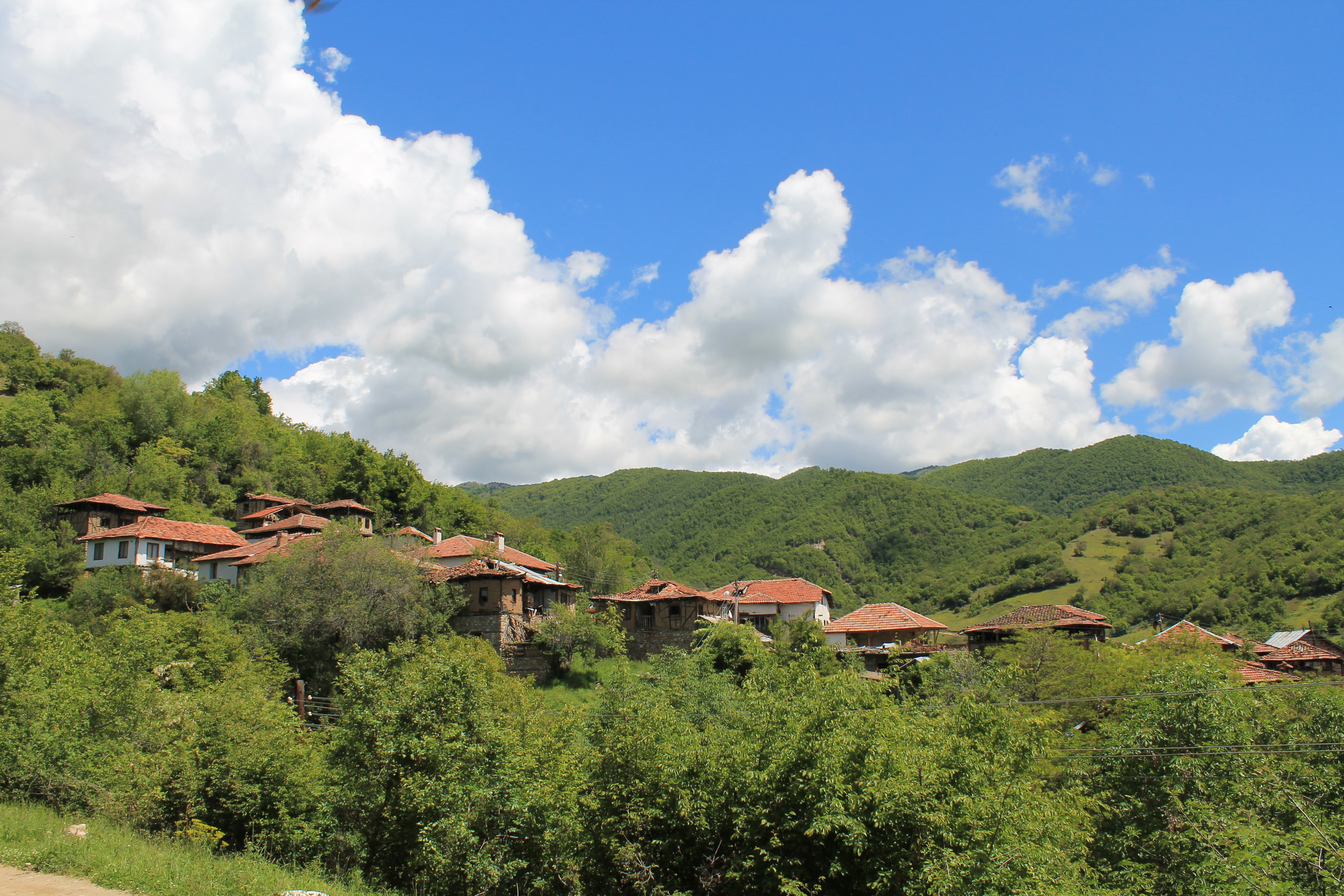 View from the village Kashina, Bulgaria